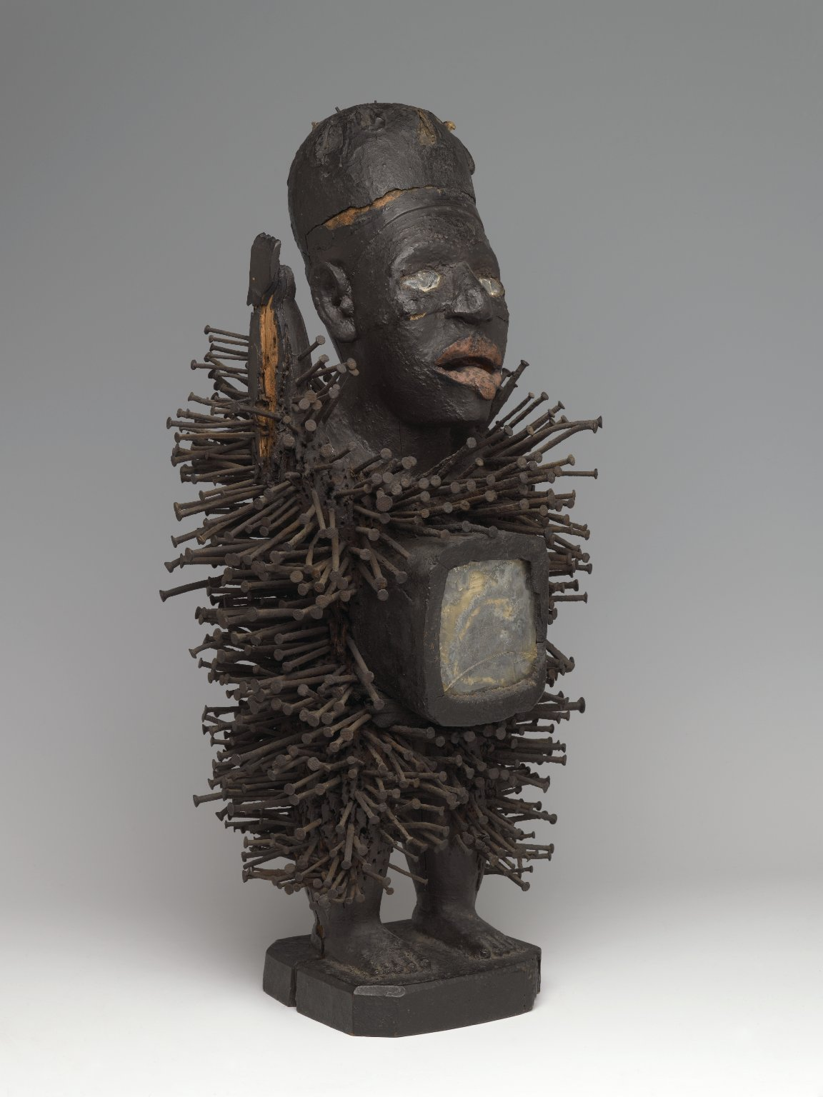 Standing figure with right arm raised, stomach has square box for magical material covered with piece of glass. Figure stands on base, mouth open, tongue protrudes, glass inlaid eyes. Surface covered with tar(?) (heavy black substance). Form almost completely covered by nails. CONDITION: Poor; wood split up legs, arms broken, wood rotted, glass on container cracked.